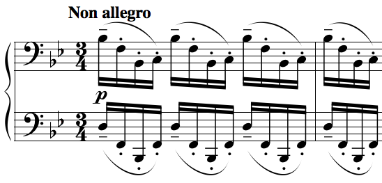 Oriental Sketch, composed by Sergei Rachmaninoff in 1917.